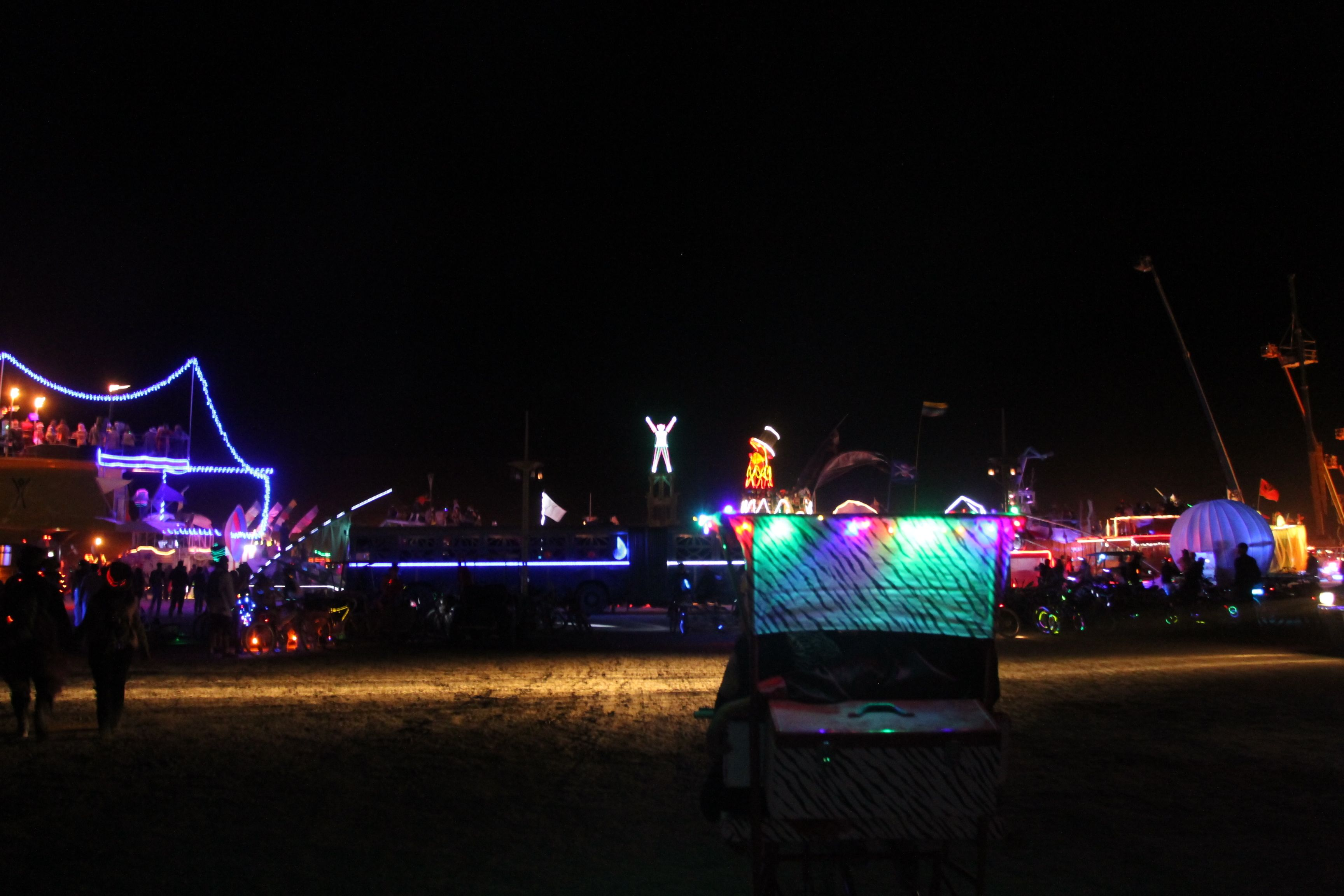 Scenery at night. Mutant vehicles and the Man with neon tubes. Photo taken at Burning Man 2010, Nevada, United States.